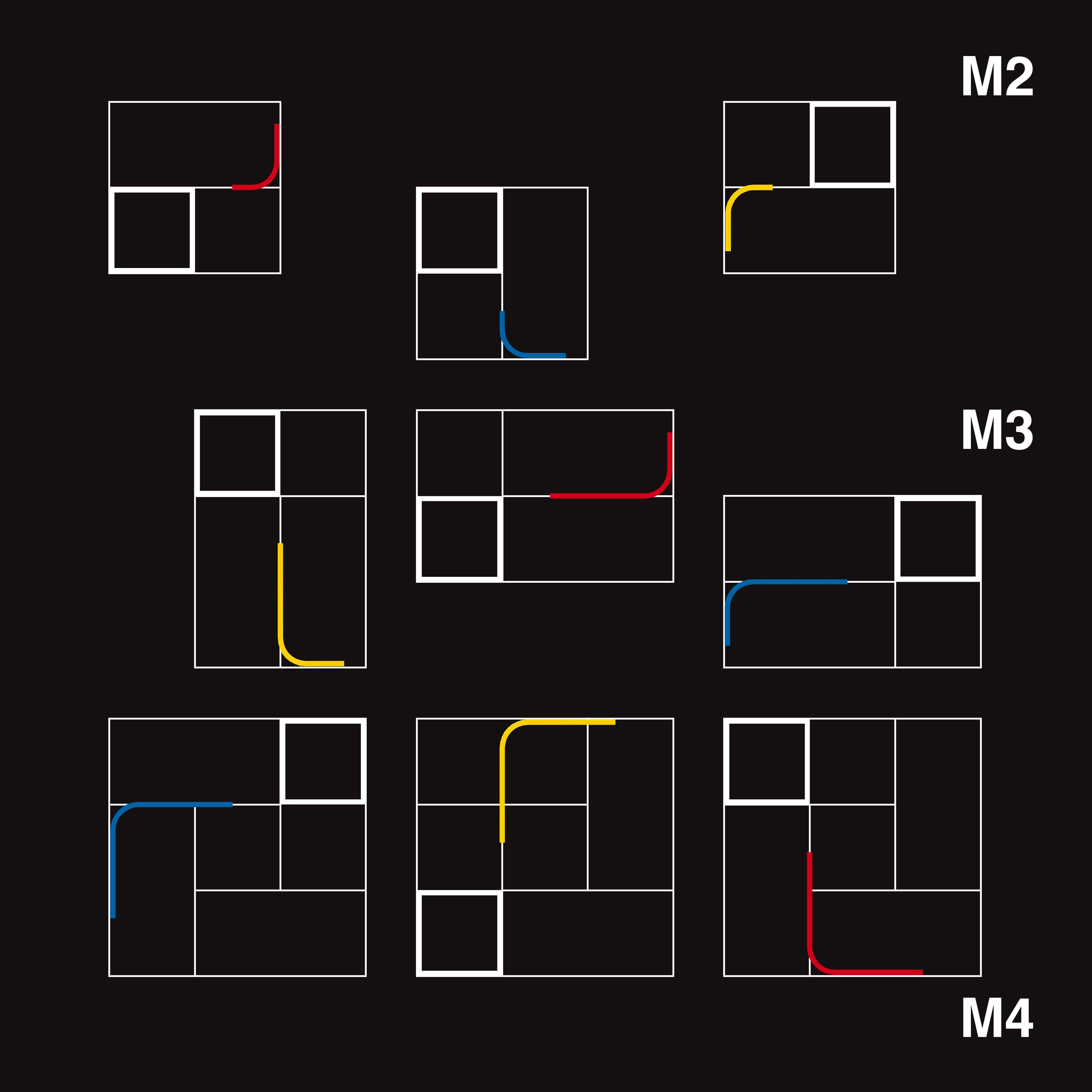 Casa Minima Modules with sliding wall in a choice od three colors